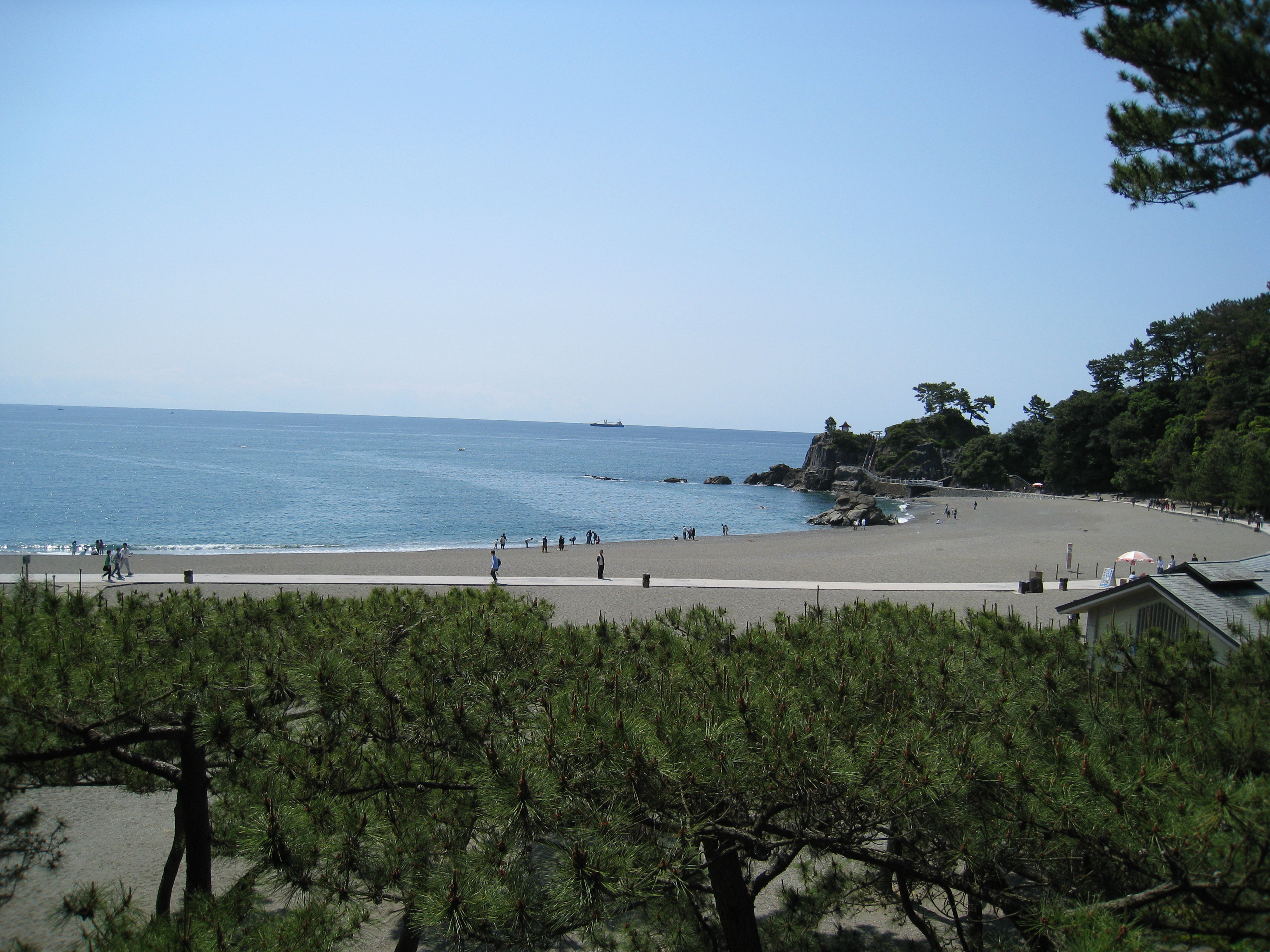 Urado, Kochi, Kochi Prefecture 781-0262, Japan